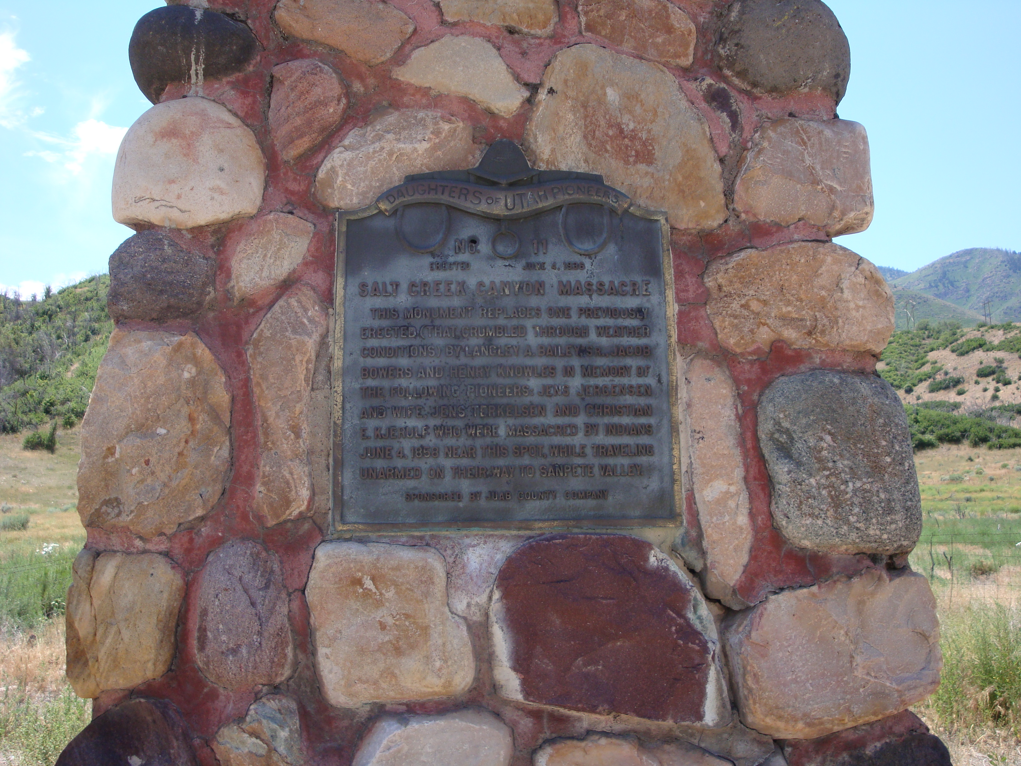 Historical marker monument for the 1858 Salt Creek Canyon Massacre, in Salt Creek Canyon, Utah. Monument was erected in memory of 4 Mormon settlers who were massacred nearby, on their way to the Sanpete Valley in the Utah Territory.